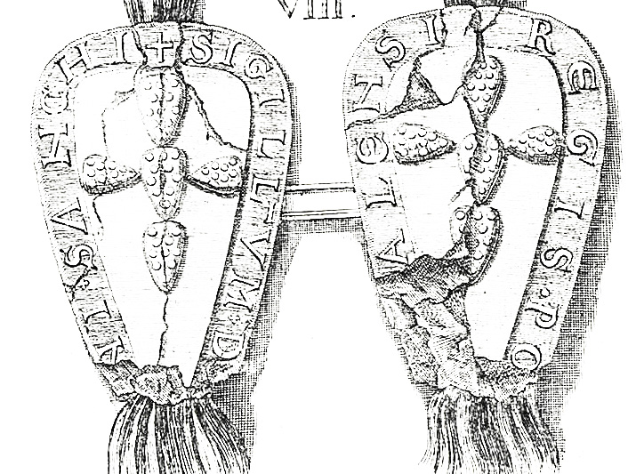 Seal of the king Sancho I, donation to the church Santa Maria do Alcobaça, march 1189.